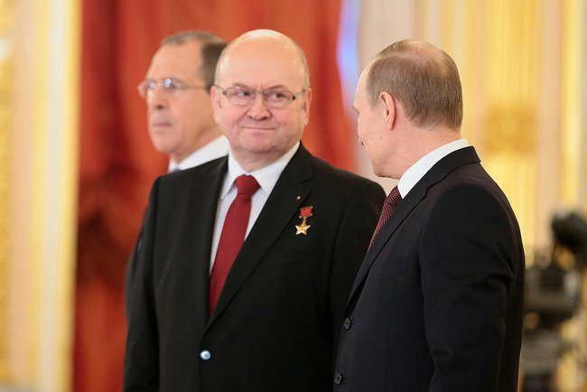 THE KREMLIN, MOSCOW. Presentation ceremony of foreign ambassadors’ letters of credentials. Ambassador of the Czech Republic Vladimir Remek presents his letter of credentials to the President of Russia.